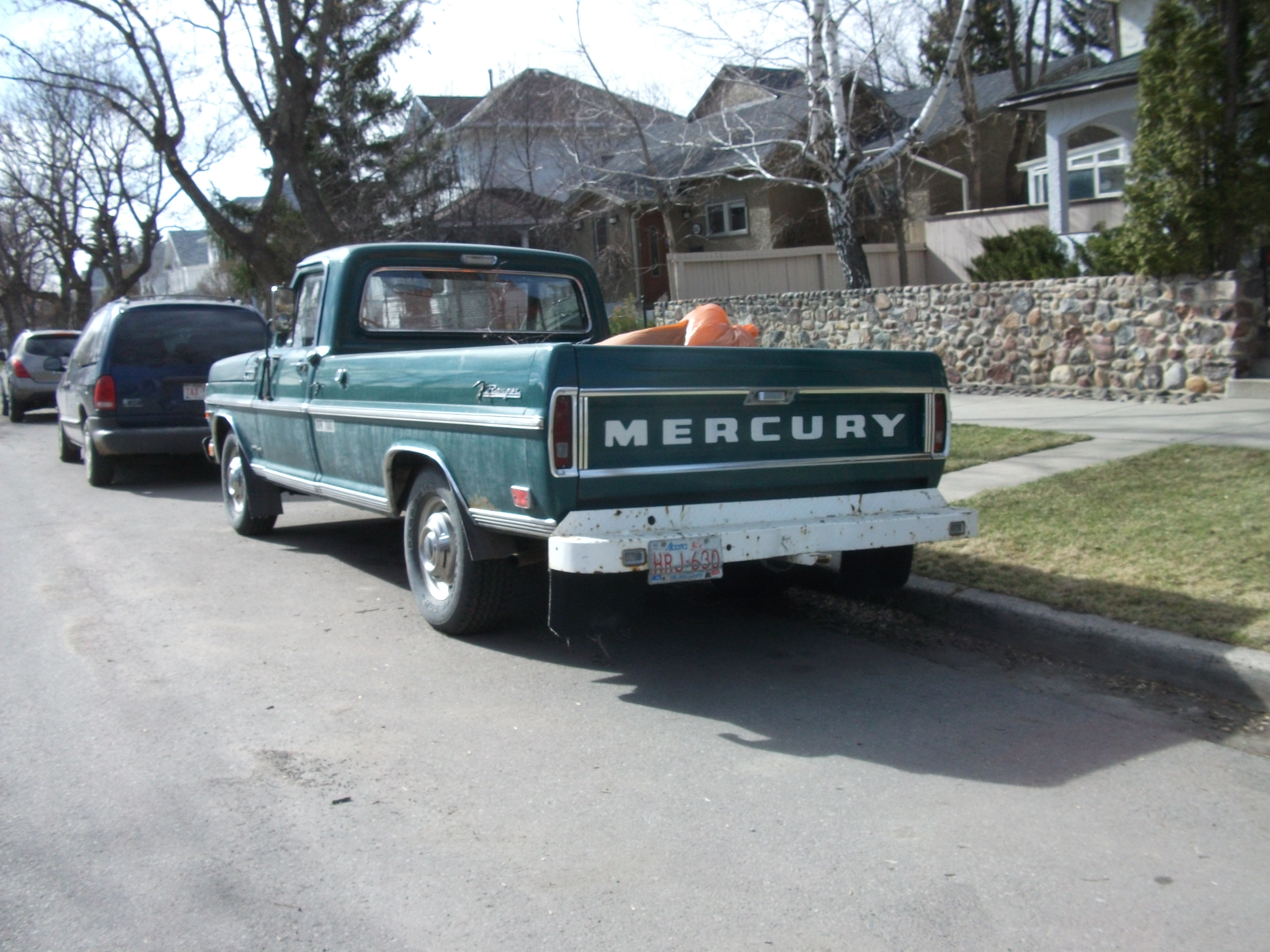 1968 Mercury Ranger truck